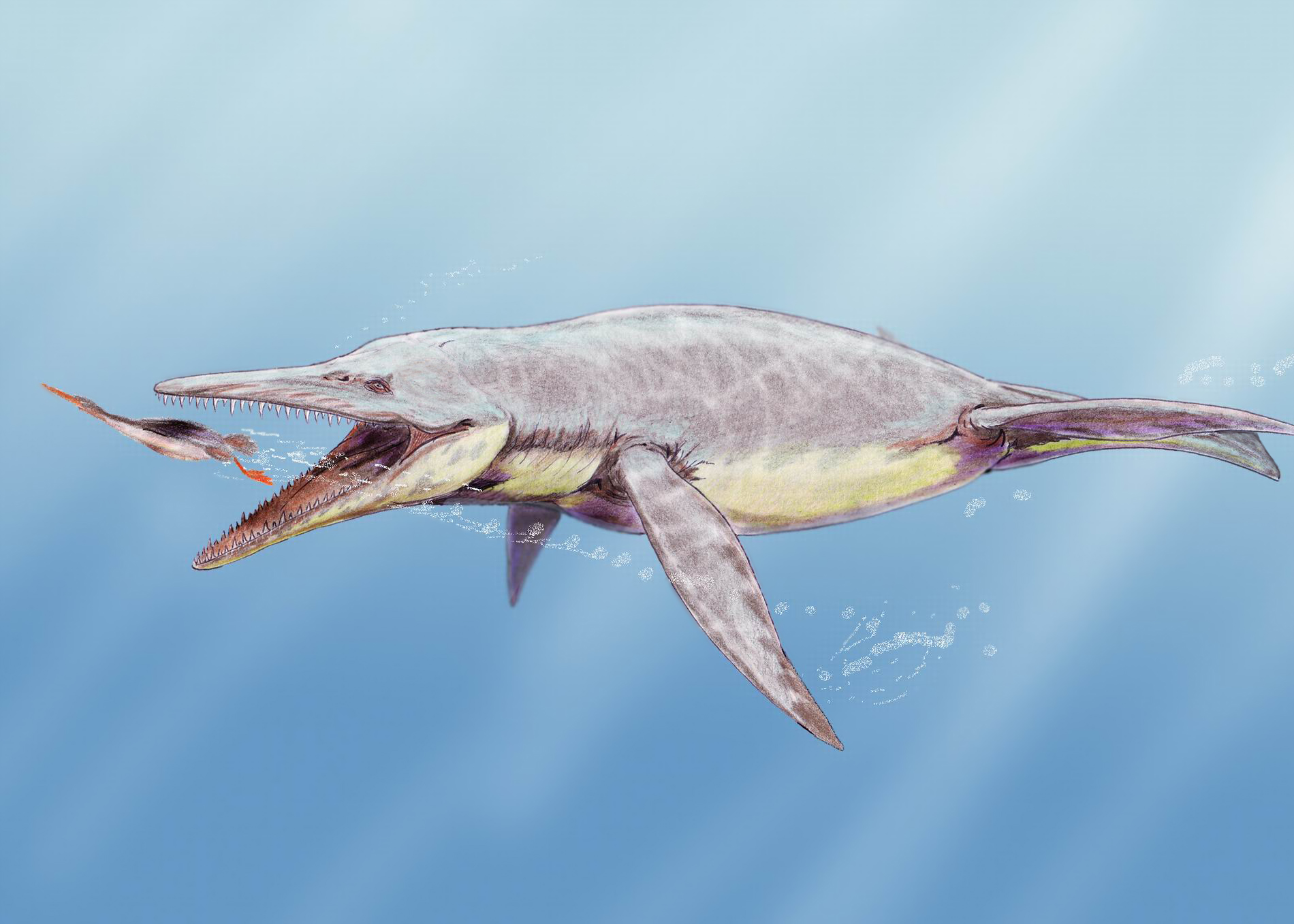 Brachauchenius lucasi perusing a generic hesperornithiform bird.